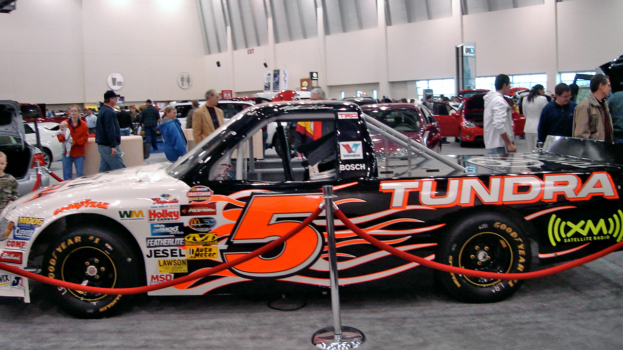 Mike Skinner's NASCAR truck (Toyota Tundra), taken at a Grand Rapids, Michigan Auto Show